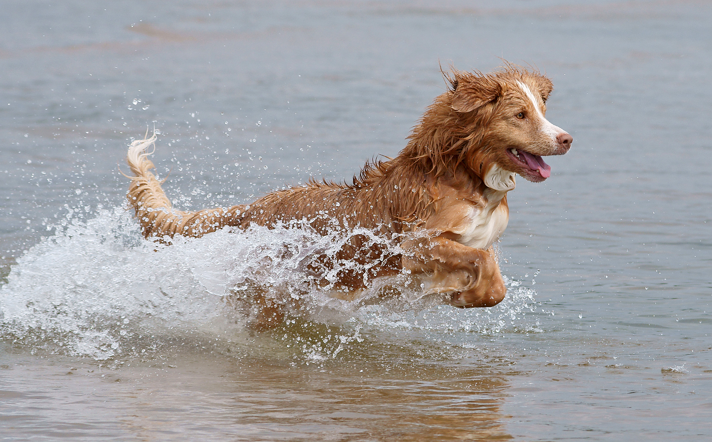 Dog looking for his ball.